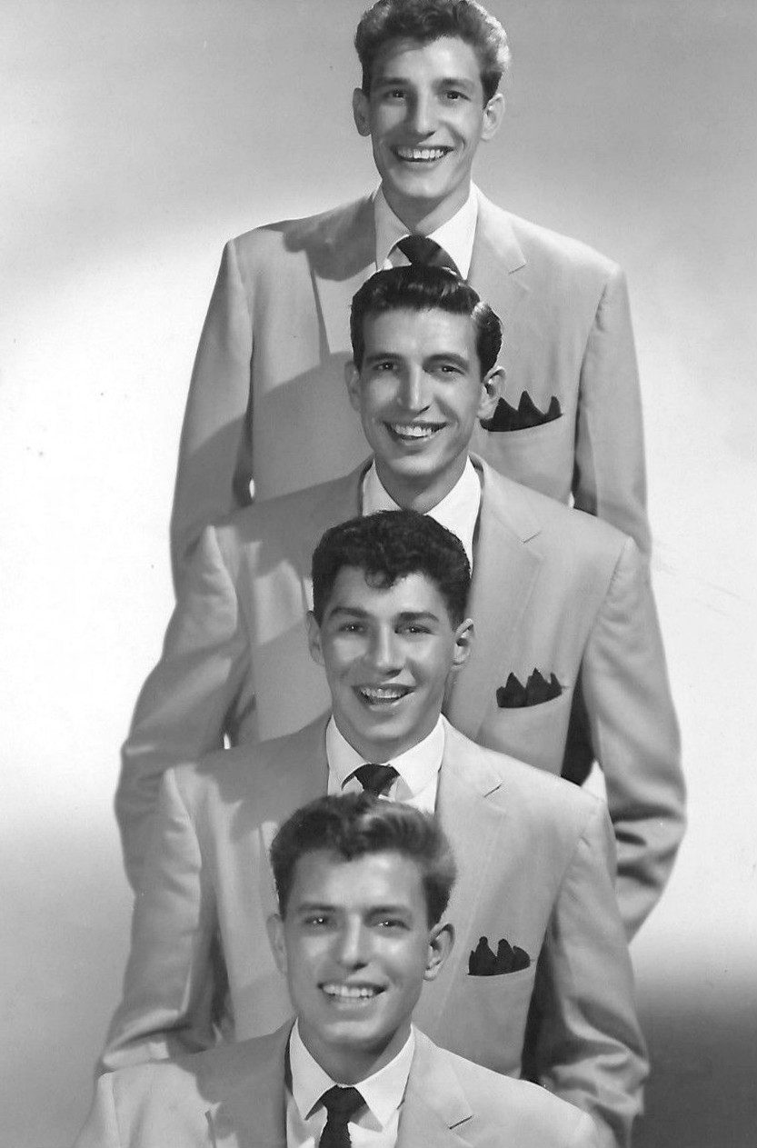 Photo of the vocal group the Four Coins. Since the photo has been cropped, renewal searches were done at . There were no listings for Bruno of Hollywood, Bruno Bernard (photo's name) or General Artists Corporation. There's no evidence of current copyright.